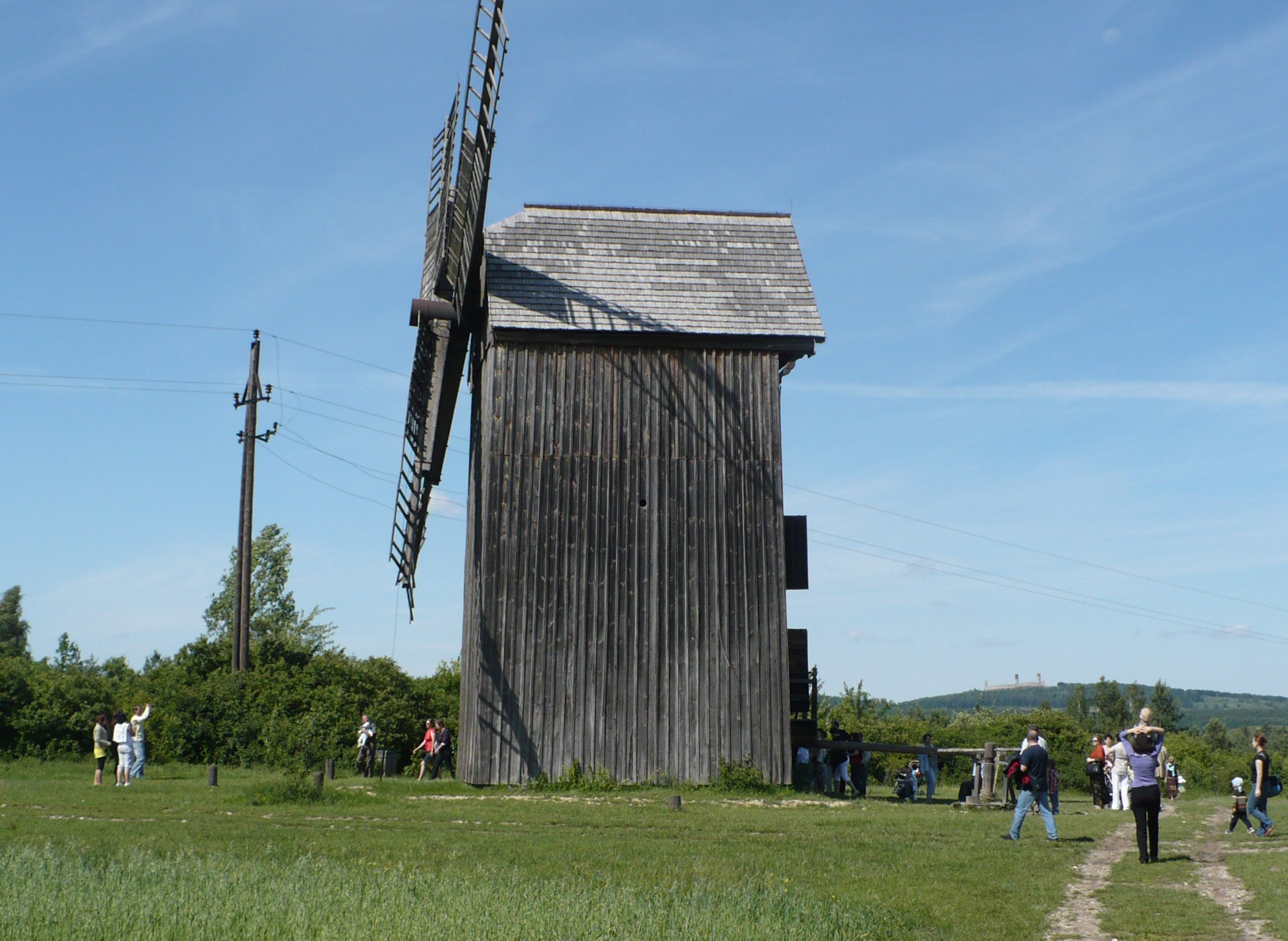 Windmill from Grzmucin in Kielce Countryside Open-air museum in Tokarnia. In a background, Chęciny castle can be seen.